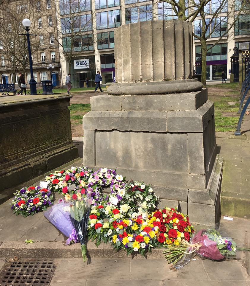 The memorial to Badger and Heap, killed during construction of Birmingham Town Hall, in the grounds of St. Phillip's Cathedral, Birmingham. The memorial is now used every year on International Workers' Day to commemorate all workers who have been killed in accidents in the workplace.